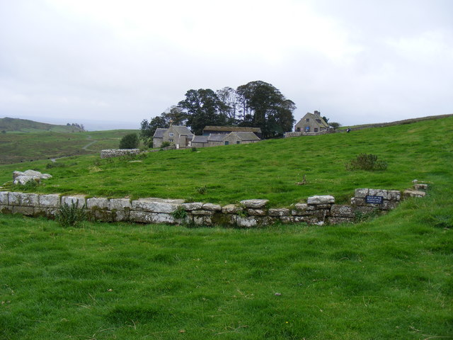 The house of the Beneficarius Consularis At Housestead's Roman Fort, to the left of the picture are farm buildings and to the right the ticket office to the foty